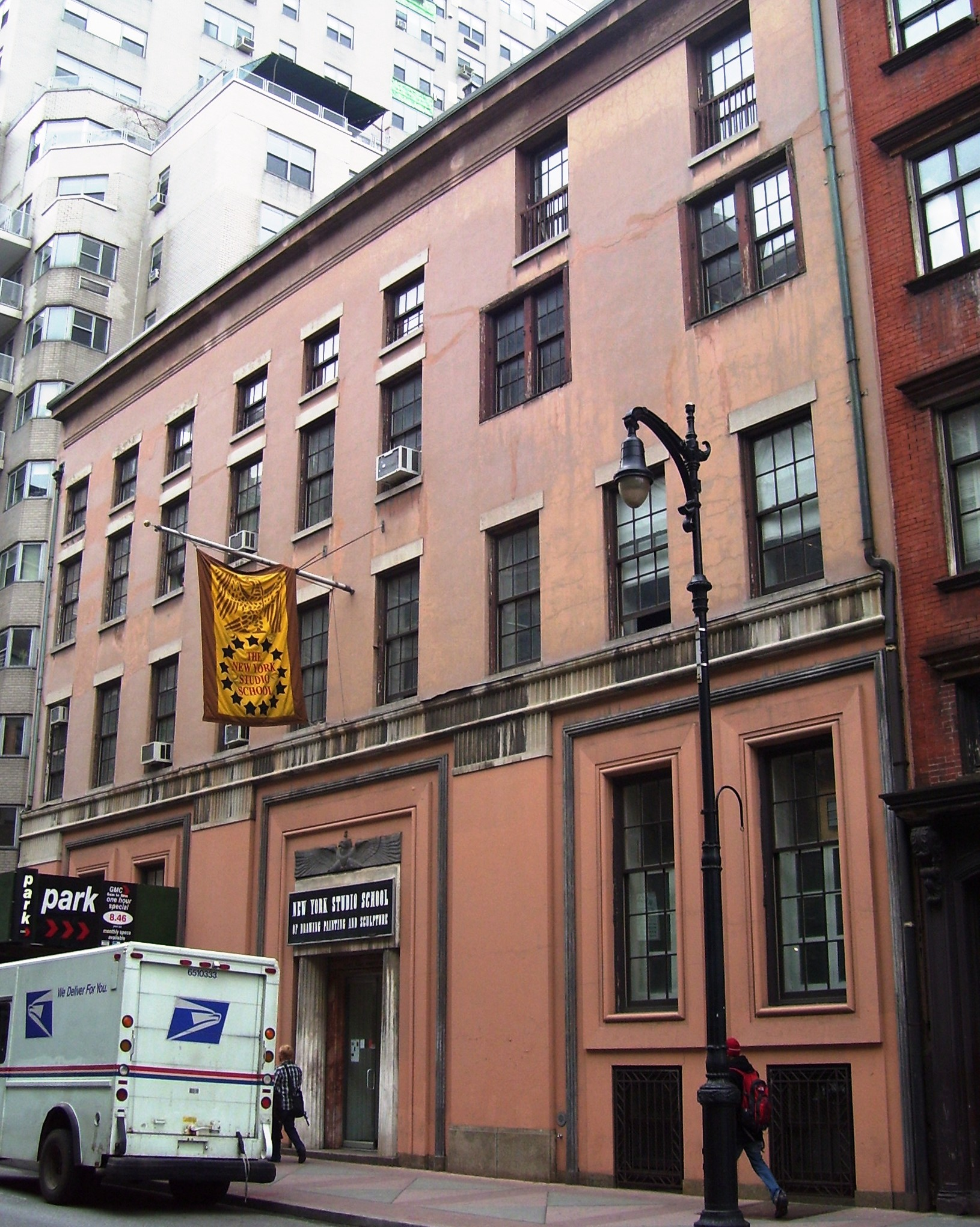 The three former row houses at 8-12 West 8th Street (built in 1838) between Fifth Avenue and MacDougal Street in the Greenwich Village neighborhood of Manhattan, New York City, were converted in 1931 by Auguste L. Noel of Noel & Miller into the first home of the Whitney Museum of American Art, which sculptor Gertrude Vanderbilt Whitney had established in 1929, after the Metropolitan Museum of Art rejected the donation of her extensive collection of contemporary and avant-garde artworks. (In 1914, Whitney had started the Whitney Studio at 8 West 8th Street, just behind her own studio on MacDougal Alley.) The museum was located here until 1954, when it moved uptown. The building is currently, along with 14 West 8th Street, the New York Studio School of Drawing, Painting and Sculture, and is located within the Greenwich Village Historic District. (Source: Guide to NYC Landmarks (4th ed.))